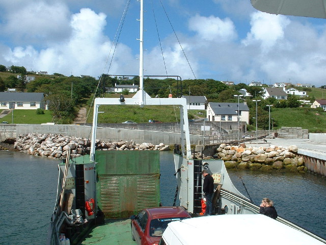 The ferry to Aranmore, Donegal. Do not confuse with the more famous Aran Islands in Galway Bay